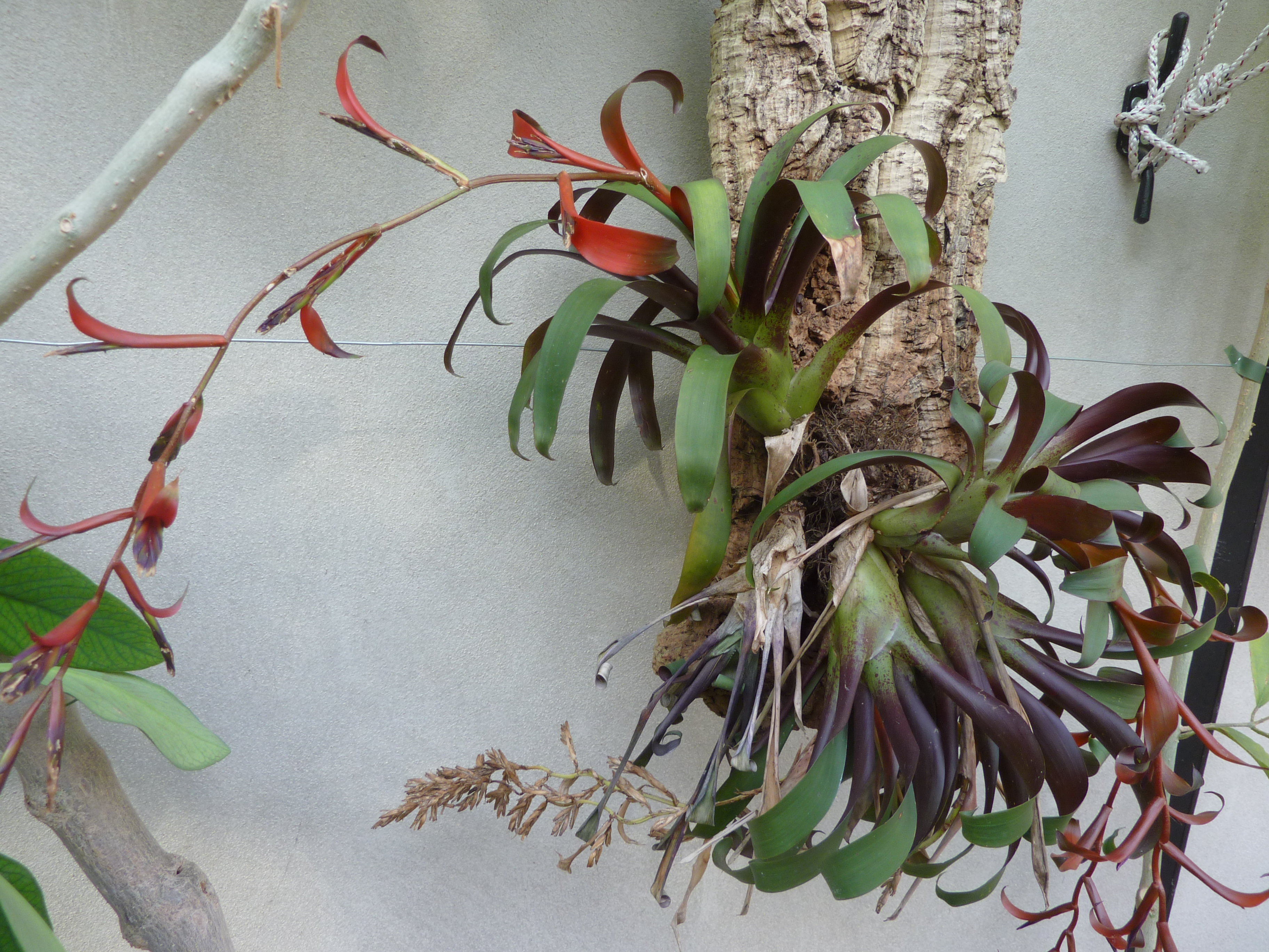 Taken in the Cambridge University Botanic Garden.